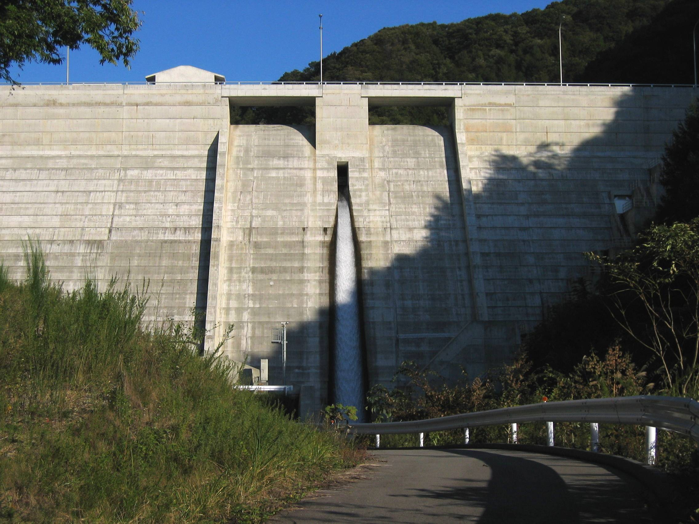 Yoji Dam (余地ダム) is a dam in Sakuho town, Nagano prefecture, Japan.